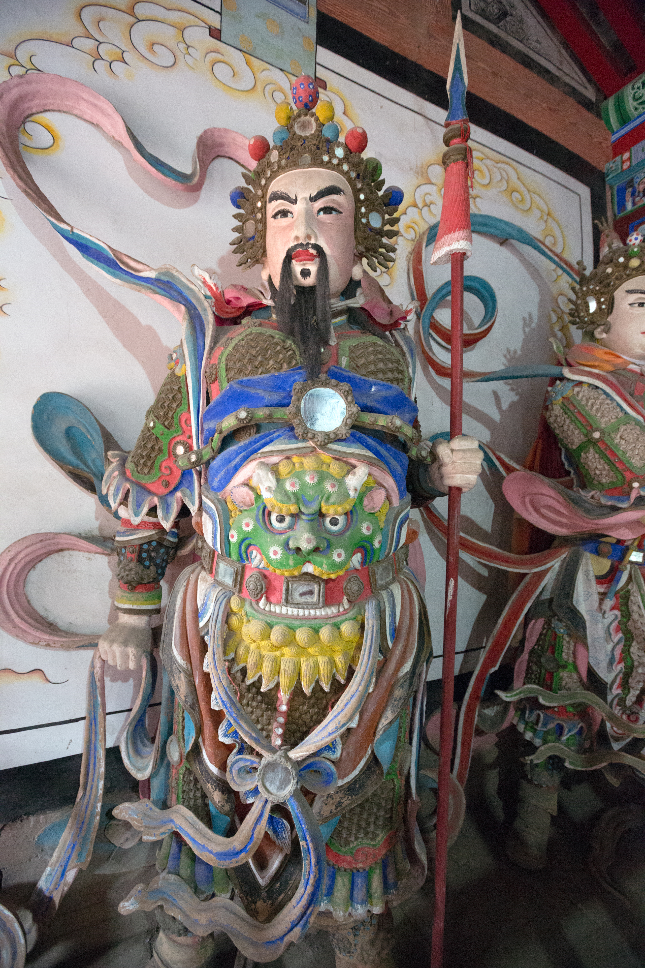 Wang Ping (王平)